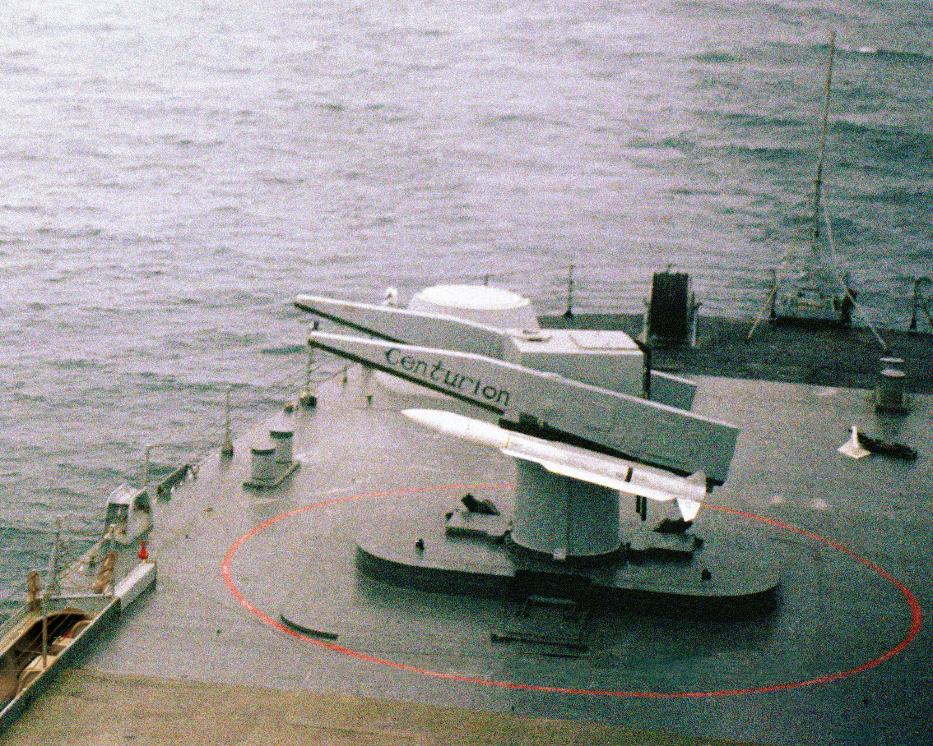 An RIM-66 Standard MR missile on a Mk 26 launcher aboard the U.S. Navy Aegis shipboard weapon system test ship USS Norton Sound (AVM-1), in 1981.